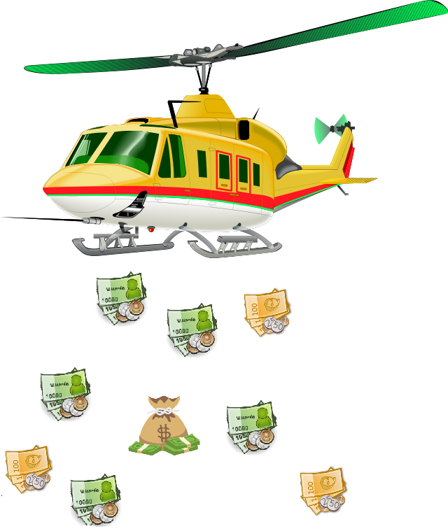 Government sends a check to individuals - a helicopter is not actually used.